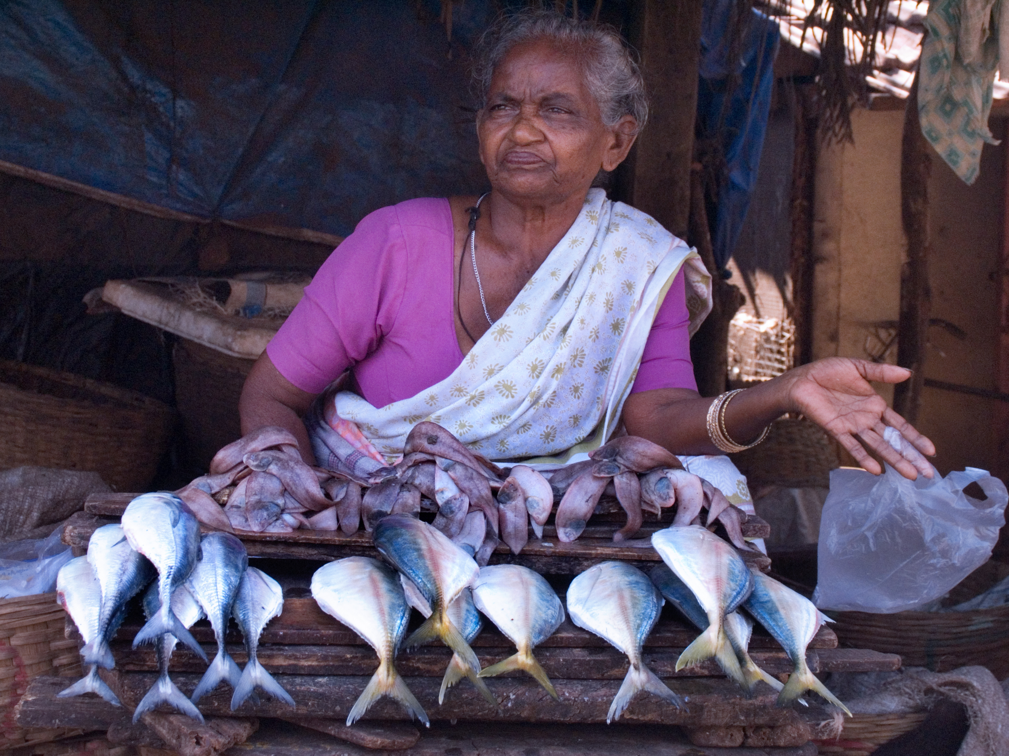 Fish seller. Fort Cochin, India